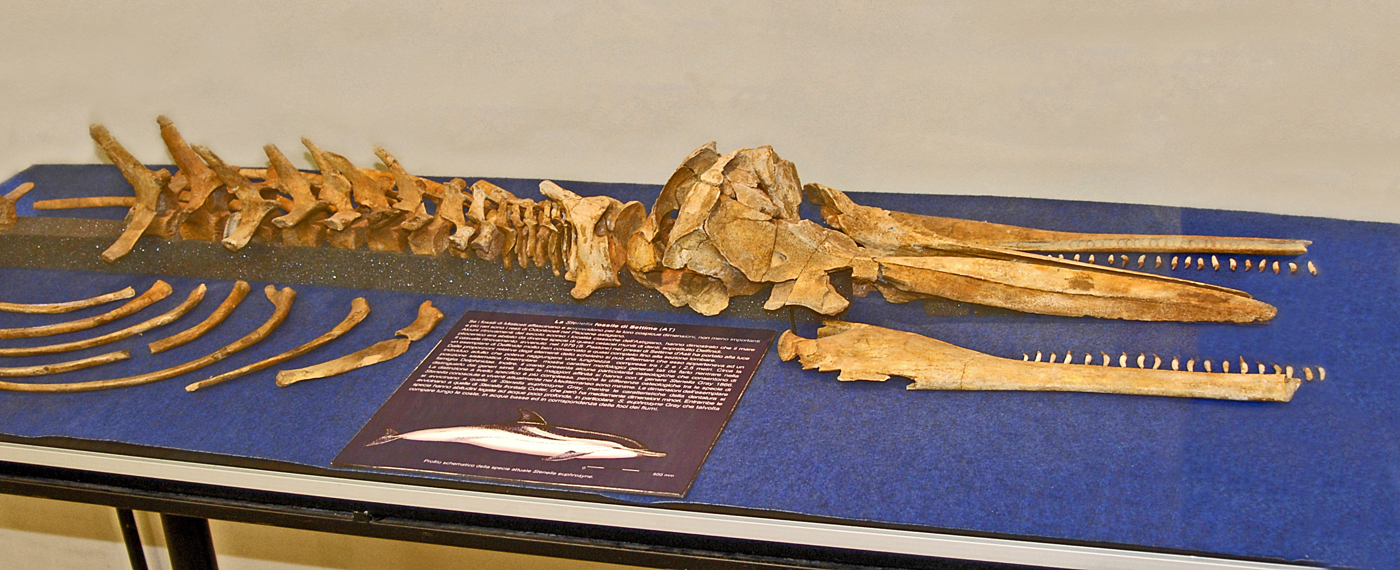 Fossil skeleton of Septidelphis morii from Pliocene of Italy, on display at the Museo Paleontologico, Asti